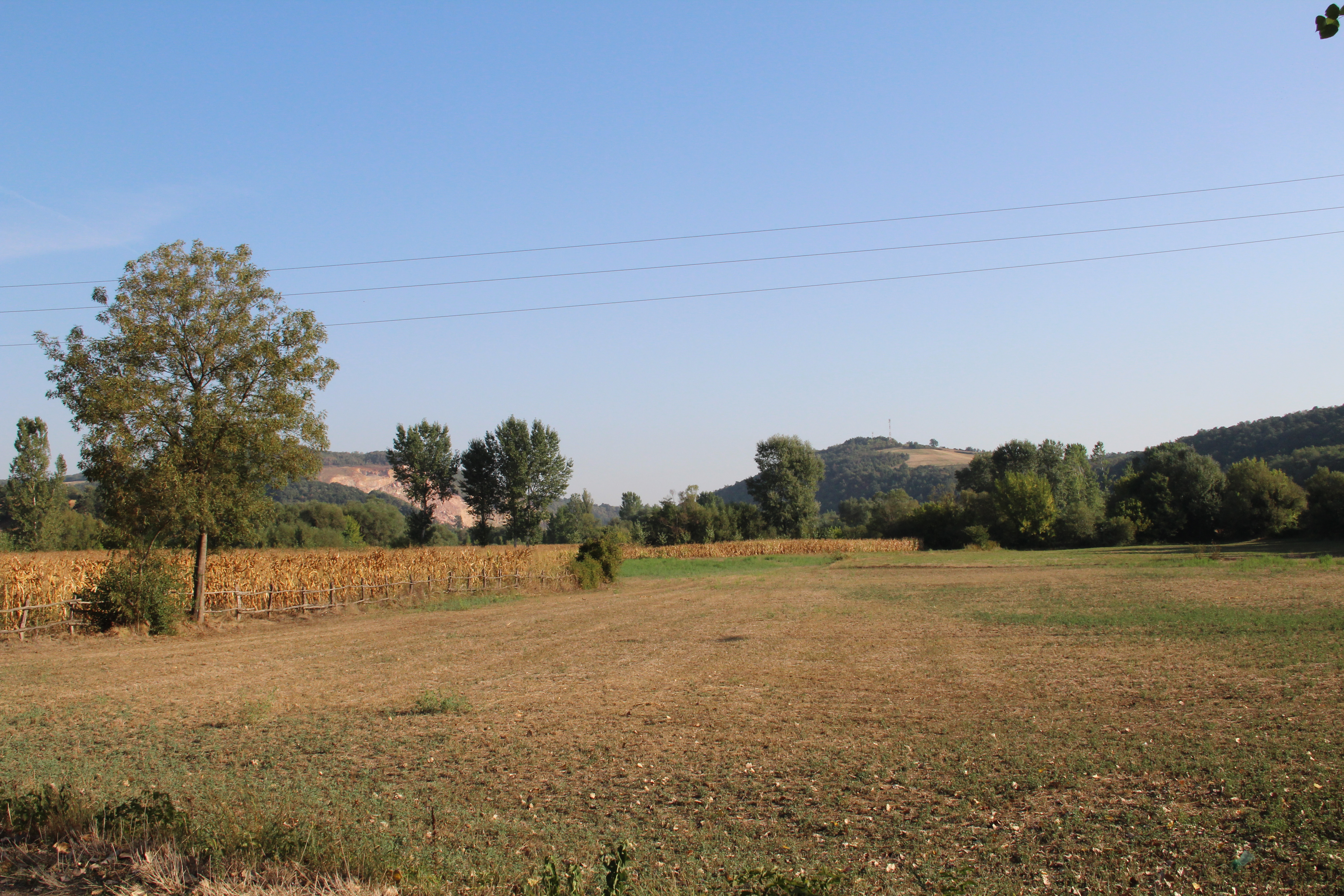 Veselinovac village - Municipality of Valjevo - Western Serbia - Panorama 7